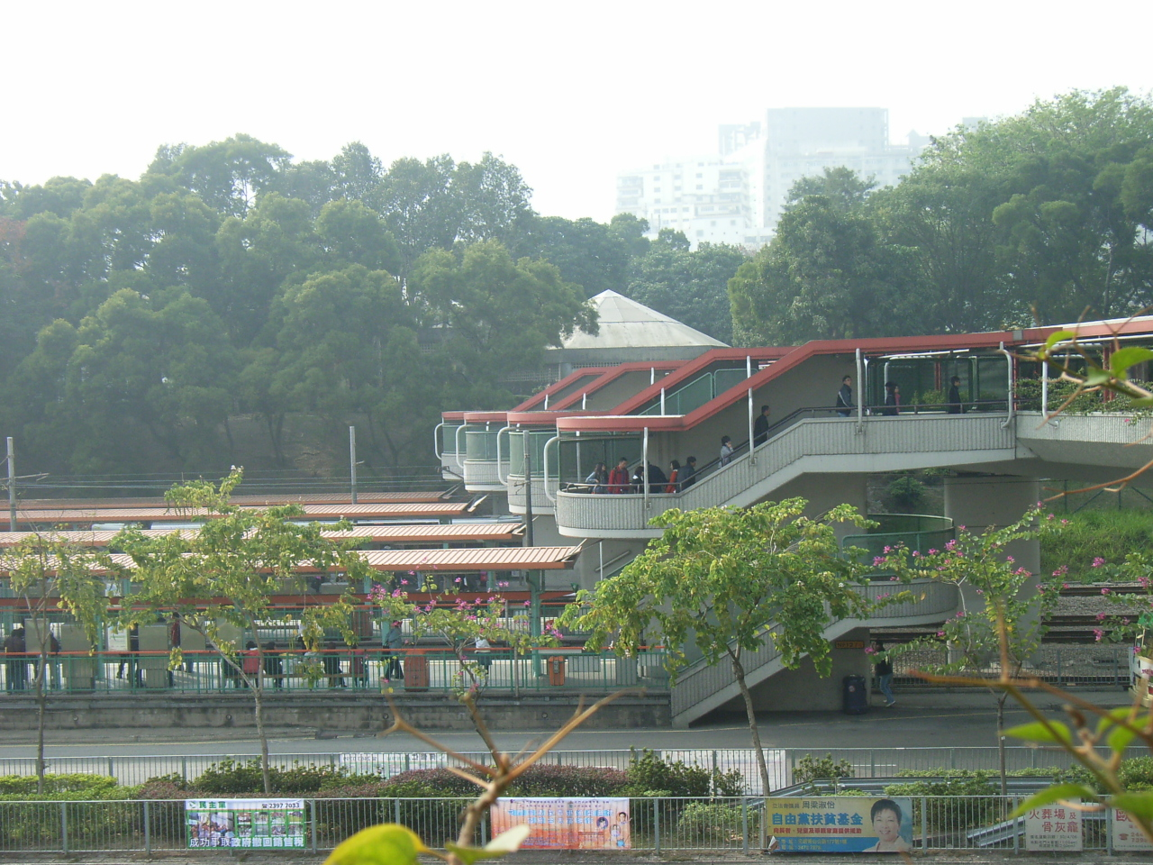 九廣輕鐵 屯門 市中心站 行人天橋, Walkway to Tuen Mun Park (屯門公園) & Light Rail Town Centre Station, Tuen Mun, New Territories, Hong Kong. (Photo created by User:TUmuMATo)。